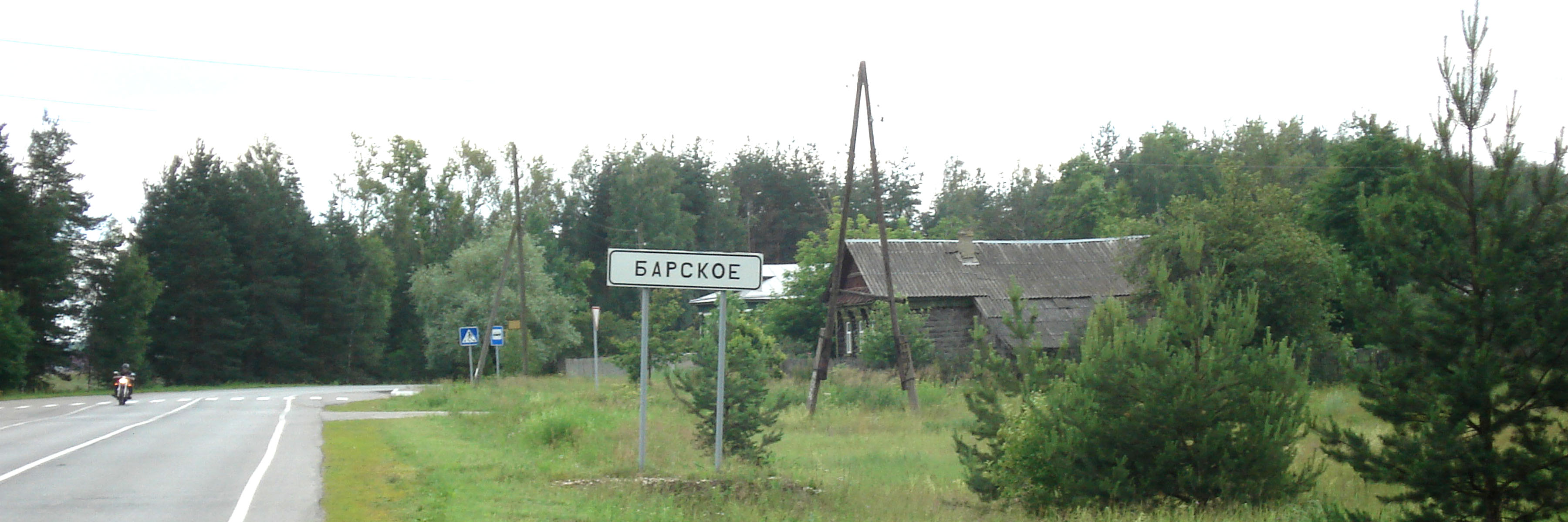 The village of Barskoye, Moskow oblast, Russia